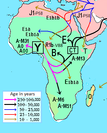 Dispersion of the main African Y-DNA haplogroups